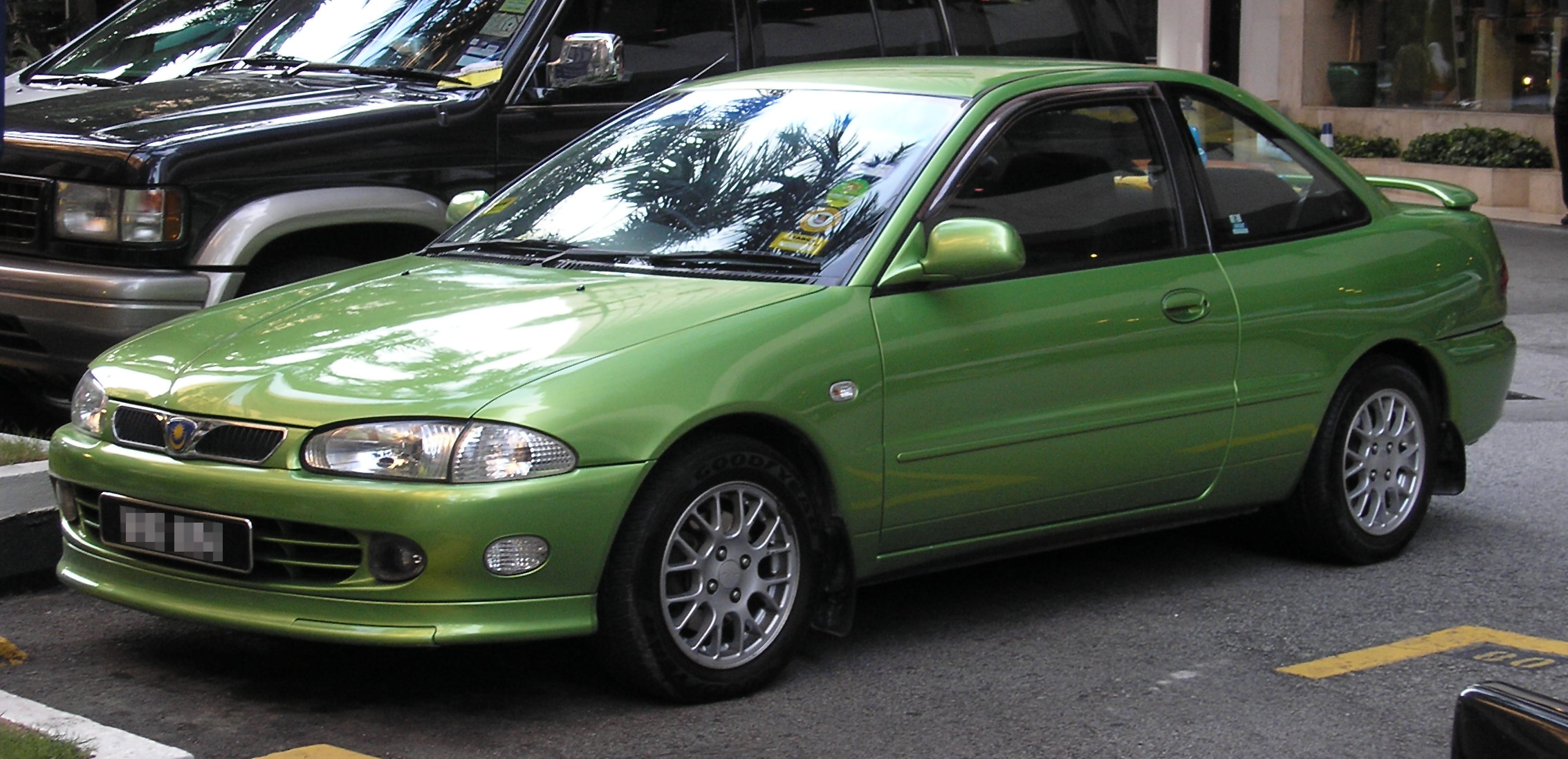 The front of a Proton Putra (presumed to be in a non-factory color), in Bukit Bintang, Kuala Lumpur, Malaysia.